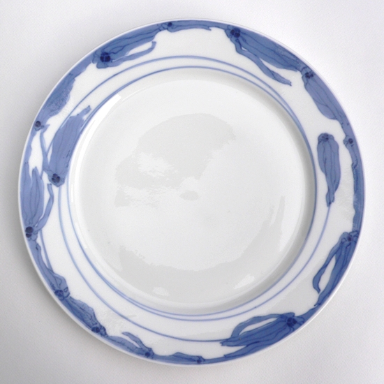 plate, arnica decor